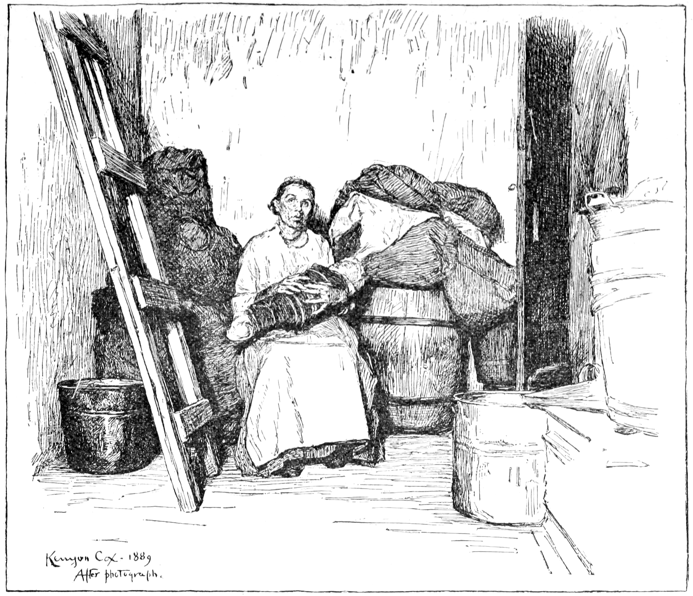 "In the Home of an Italian Rag-Picker, Jersey Street"